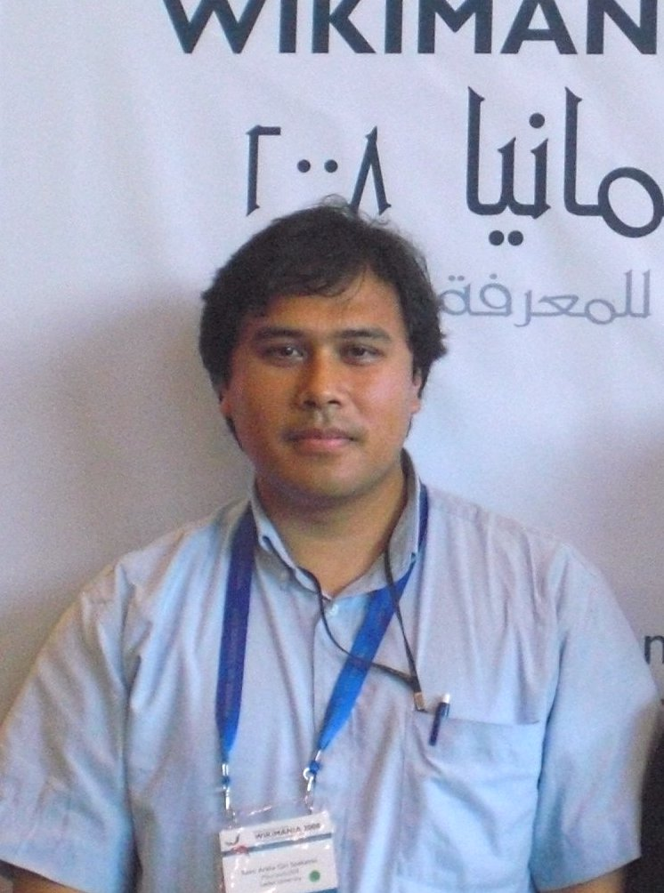 Revo Arka Giri in Alexandria 2008